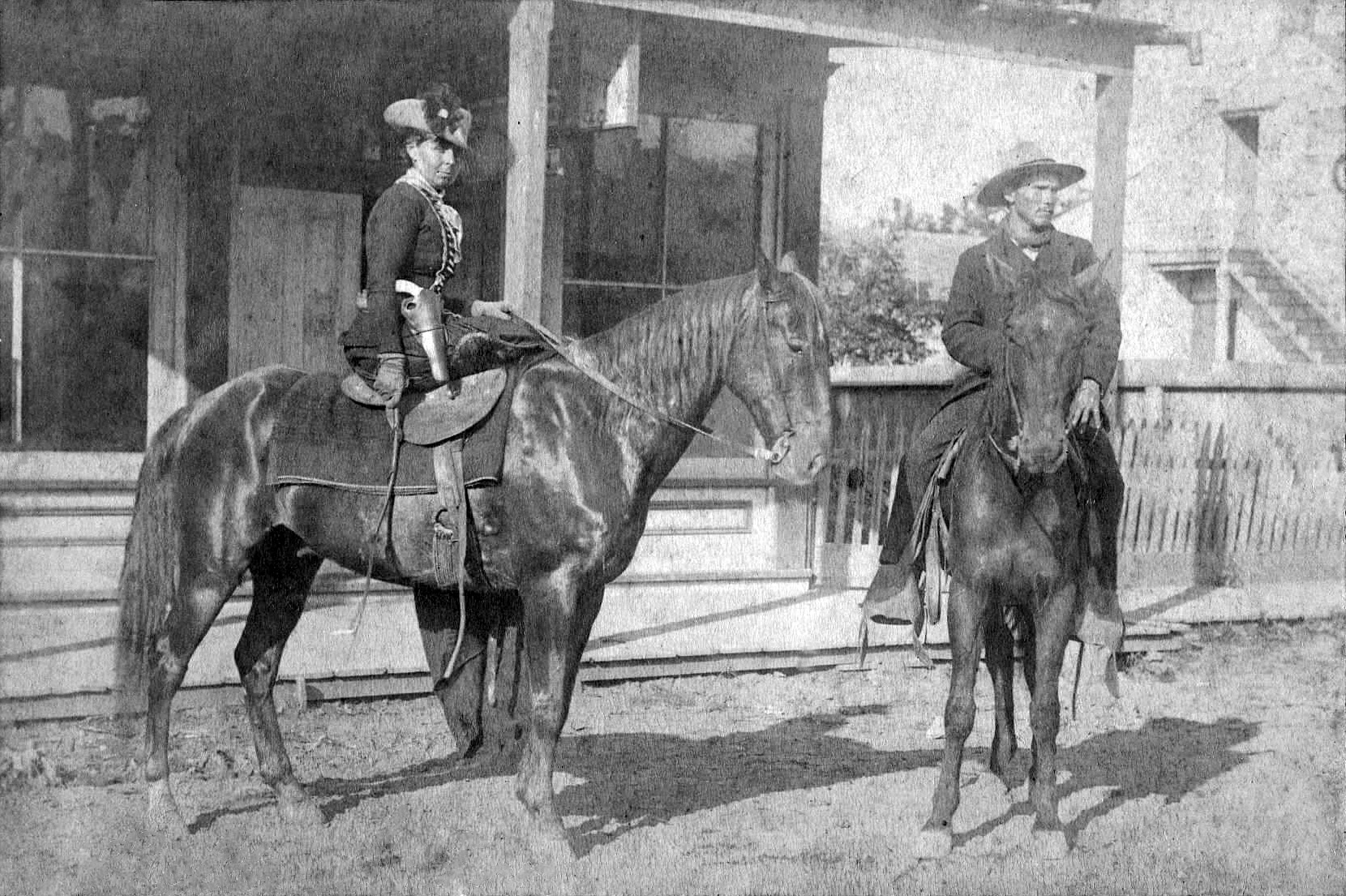 Belle Starr, sitting side saddle on her horse staring intently at one of the Roeder brothers, photographers in Fort Smith, Arkansas. She is wearing a single loop holster that has a pearl handled revolver in it, has a riding crop in her right hand and is wearing leather gloves. She is posing in front of a building with an unidentified man mounted on horse beside her. Update on photo description: The man on the horse is Deputy U.S. Marshal Benjamin Tyner Hughes who, along with his posse man, Deputy U.S. Marshal Charles Barnhill, arrested her at Younger's Bend in May of 1886 and brought her to Ft. Smith for arraignment. Source: Ft.Smith National Historic Park photos